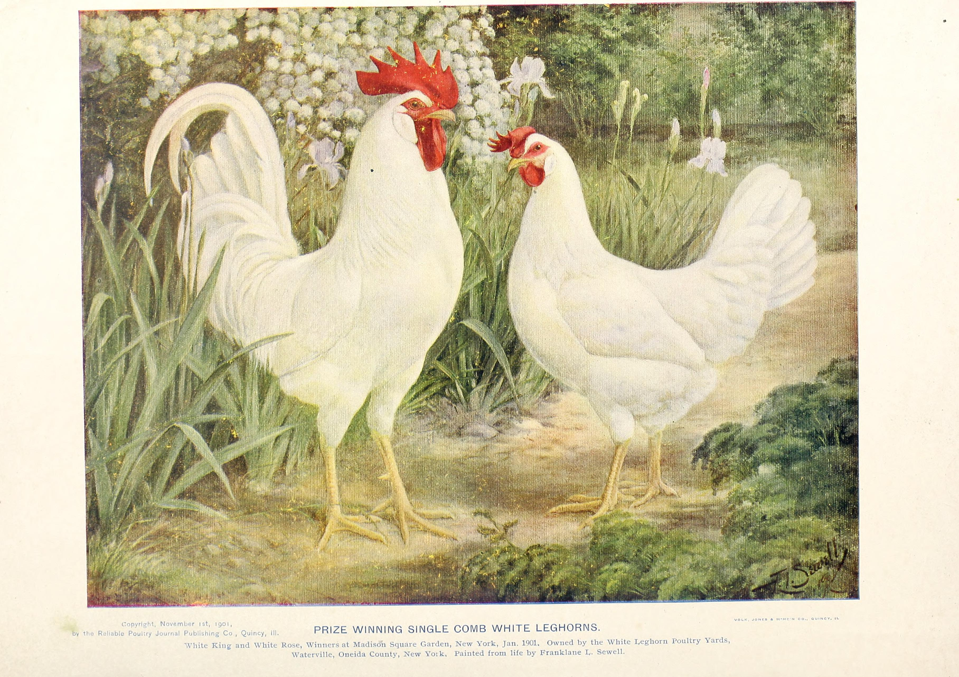 Title: The leghorns, brown, white, black buff and duckwing : An illustrated leghorn standard, with a treatise on judging leghorns, and complete instructions on breeding, mating and exhibiting Year: 1904 (1900s) Authors: Reliable Poultry Journal Publishing Company Subjects: Leghorn chicken Publisher: Quincy, IL : Reliable poultry journal Pub. Co. Text Appearing Before Image: l be promptly refundedThe above prices include payment of postage to any address in the United States or Canada. Reliable Poultry Journal Publishing Company, Quincy, Illinois, U. S. A. Text Appearing After Image: GhOi OR). America exhibitors geileghornsbrownwhi00reli_0